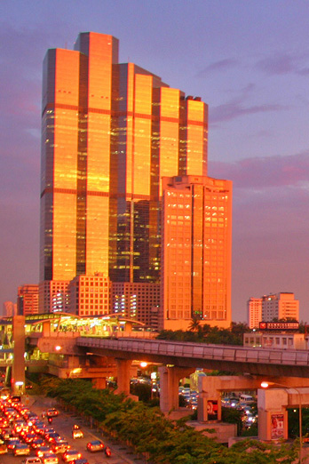 The orange glow of the setting Sun is reflected in the western façade of Empire Tower, Bangkok, in this cropped photograph taken from Silom and Naradhiwas Rajanagarindra intersection.